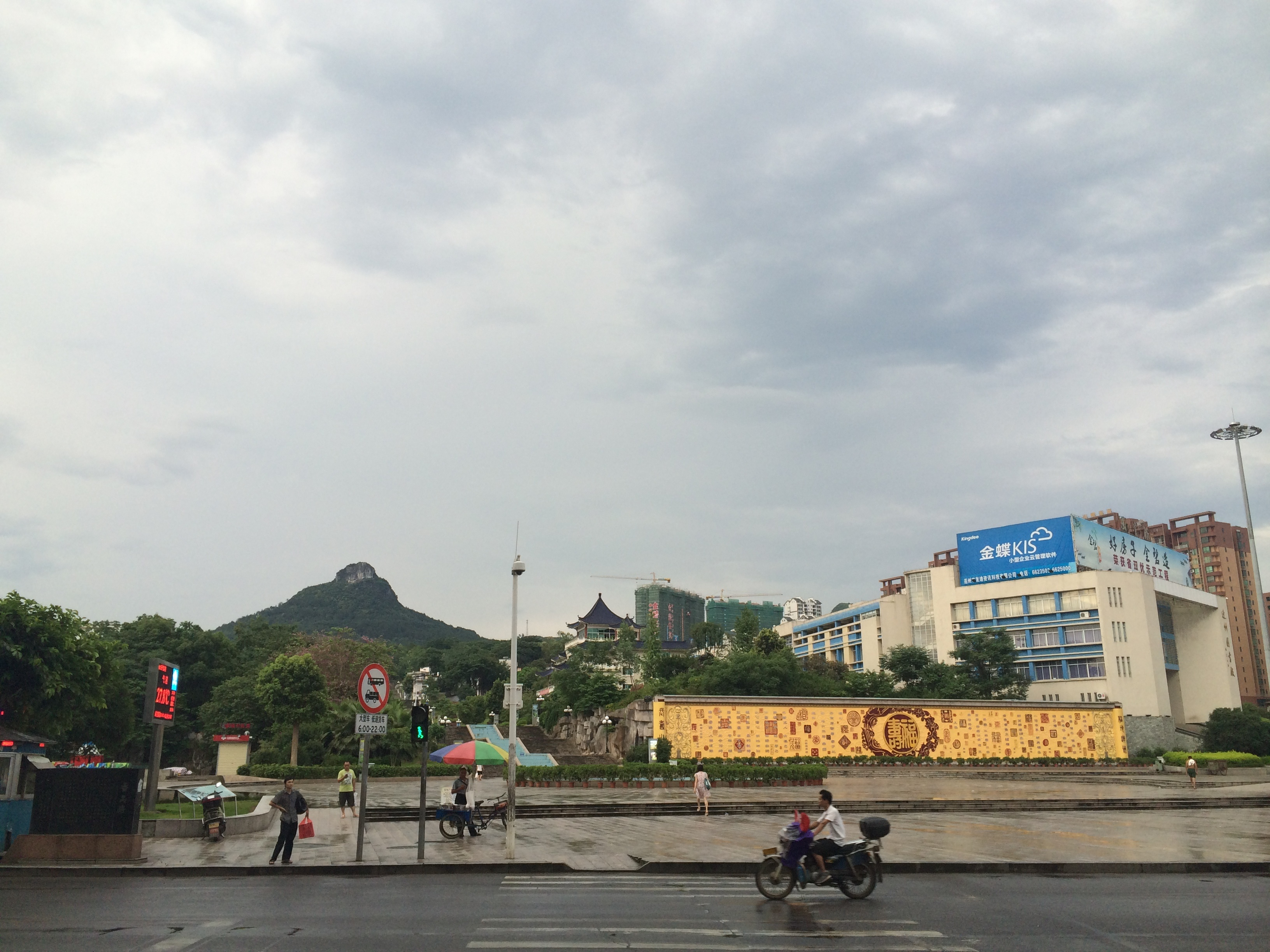 Lienchow Library, Lienchow, Kwangtung 粵語: 廣東連州圖書館